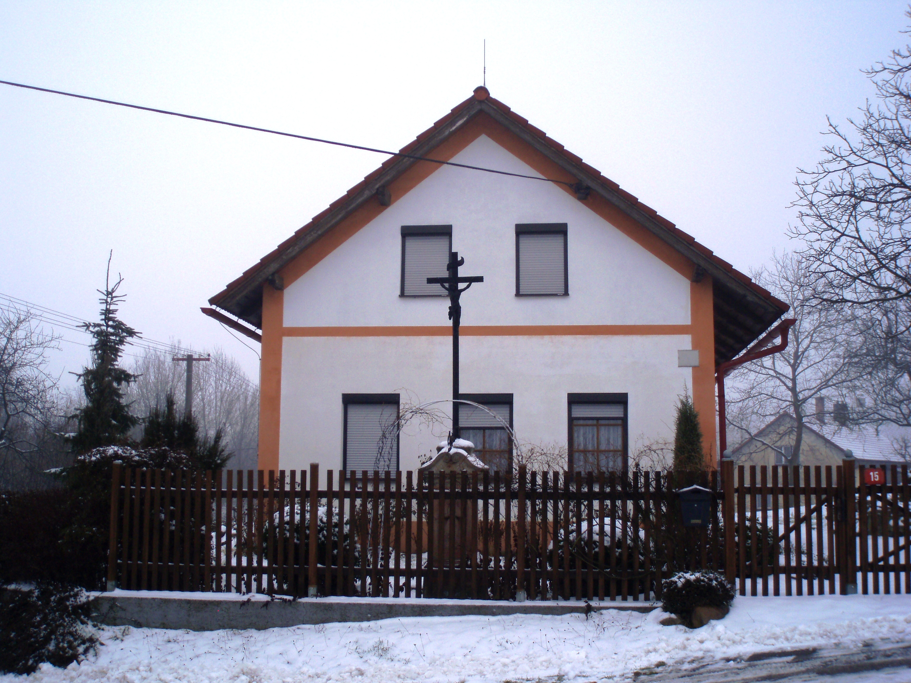 House No. 15 in Chlístov (Hořičky) Česky: Dům čp. 15 v Chlístově (Hořičky)